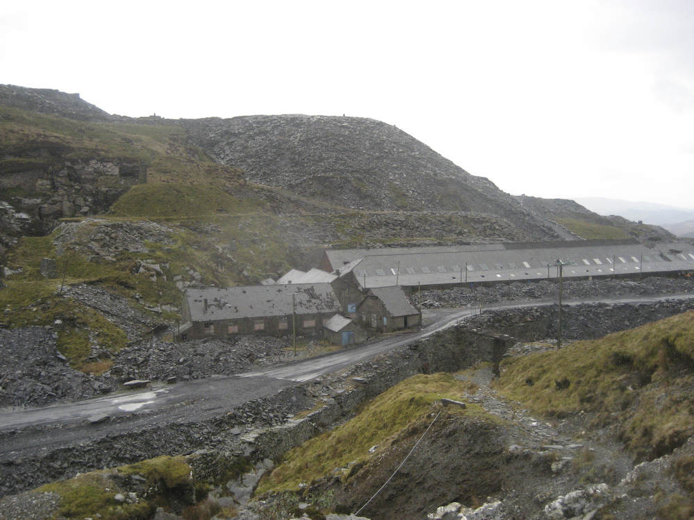 The main slate cutting mill at Maenofferen